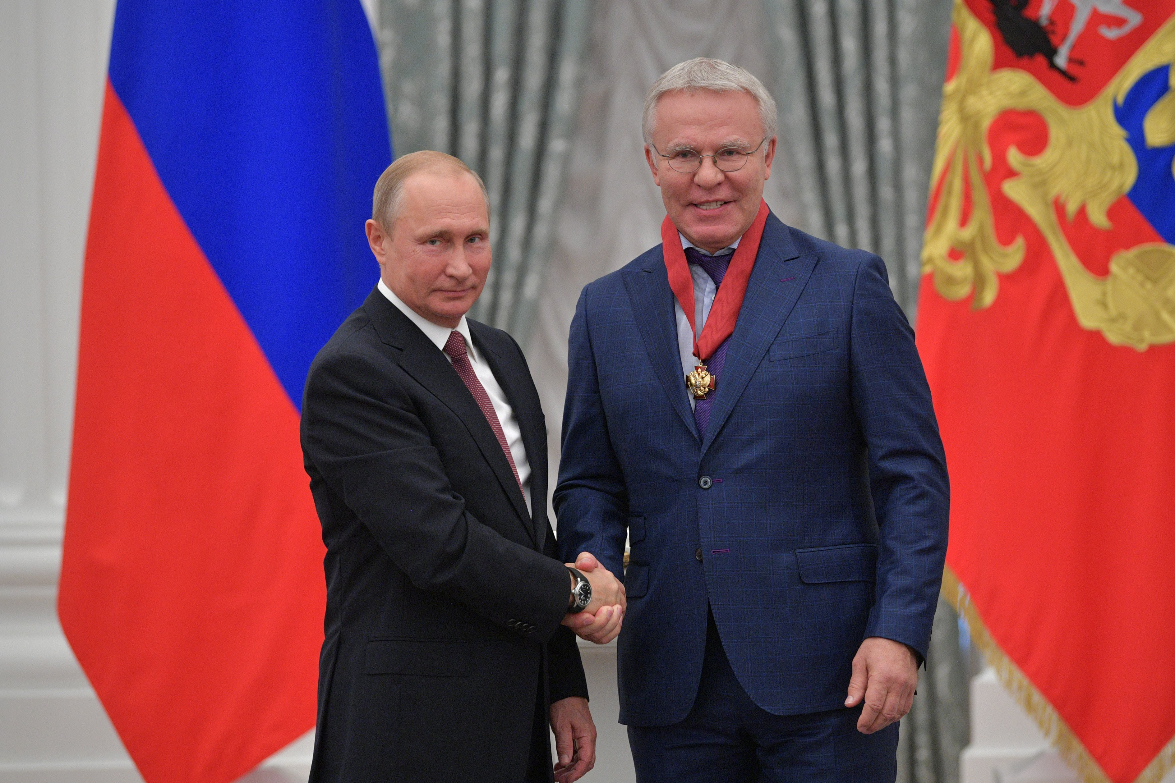 Vladimir Putin and Viacheslav Fetisov at award ceremonies 27 Jun 2018, Kremlin, Moscow.